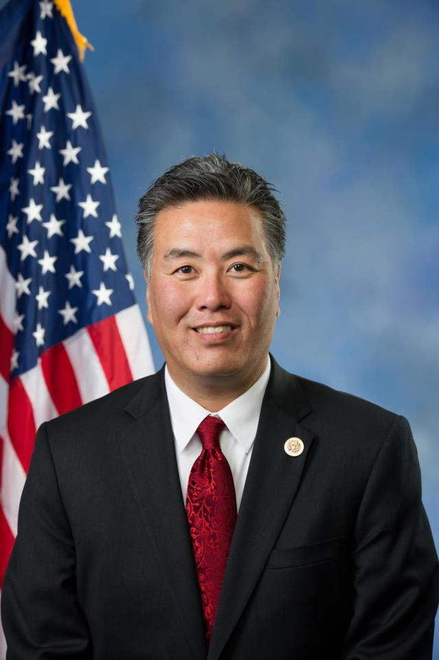 U.S. Representative from California Mark Takano.